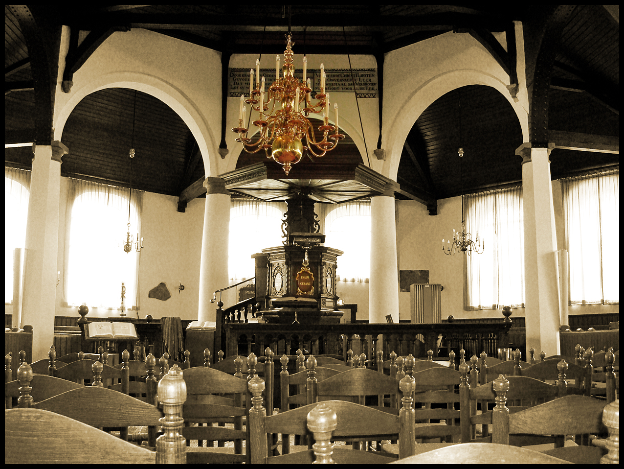 Rijnsburg, Netherlands - Church 'Laurentiuskerk' - Interior.